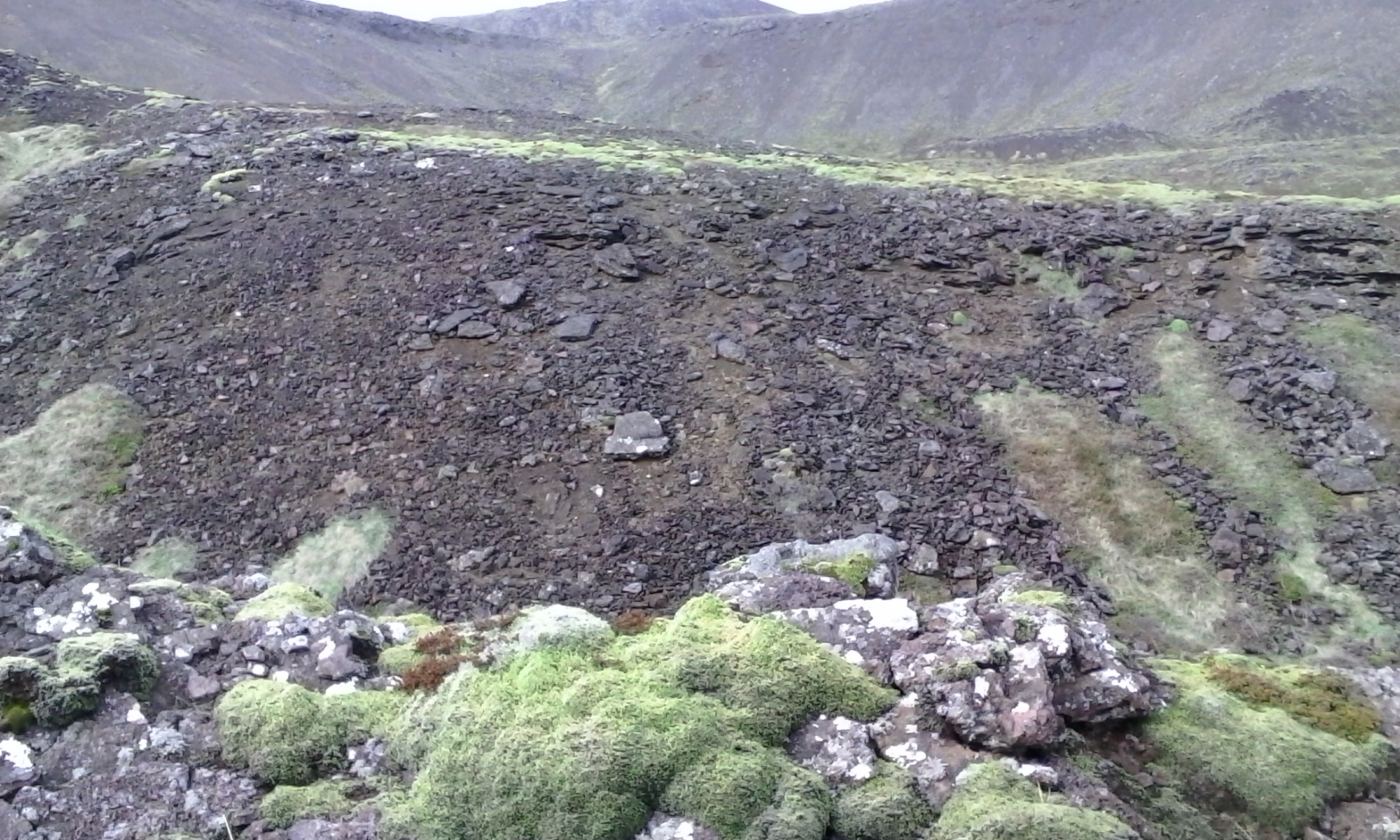 Lava channels around Eldborg, Krýsuvík, Iceland